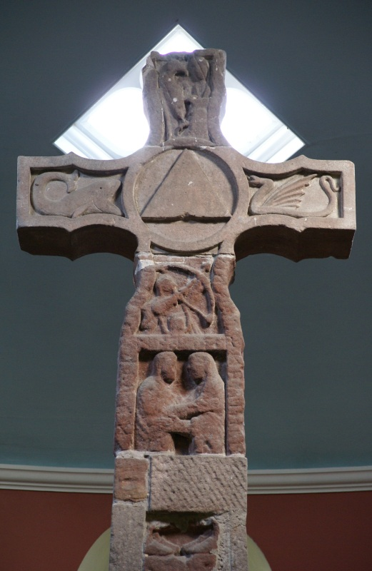 Ruthwell Cross, Ruthwell and Mount Kedar Church, Ruthwell, Dumfries and Galloway, Scotland. South side - detail.